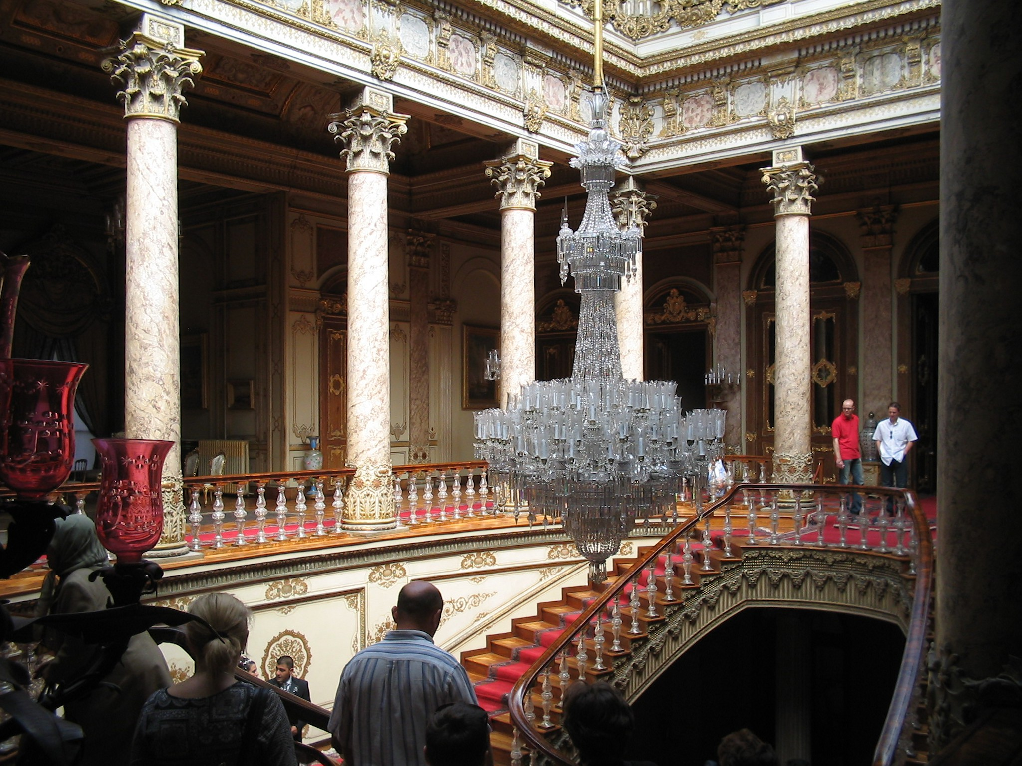 Baccarat bannister in stairway of Dolmabahce Palace